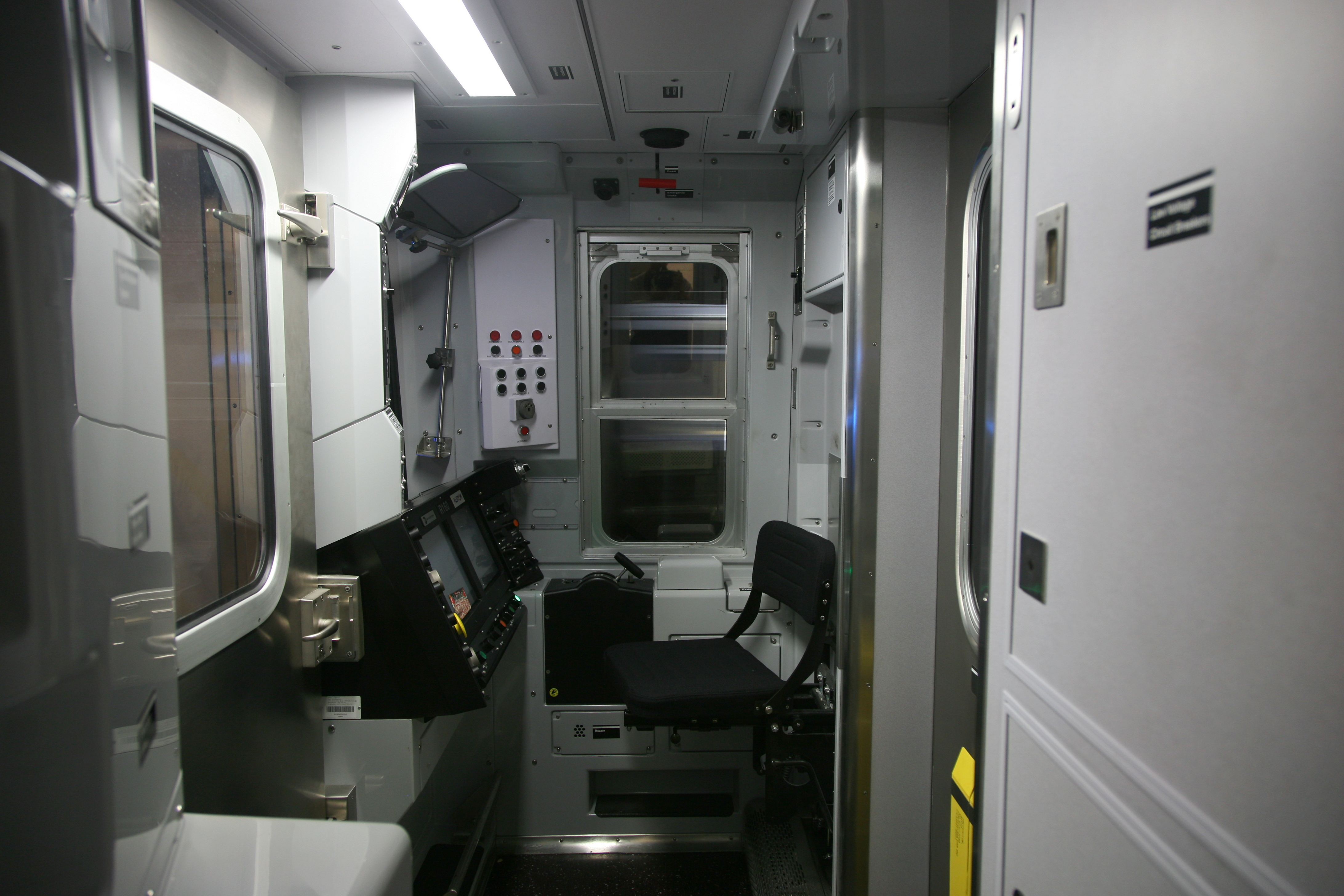 N-line train cockpit at Broad Street station, New York City